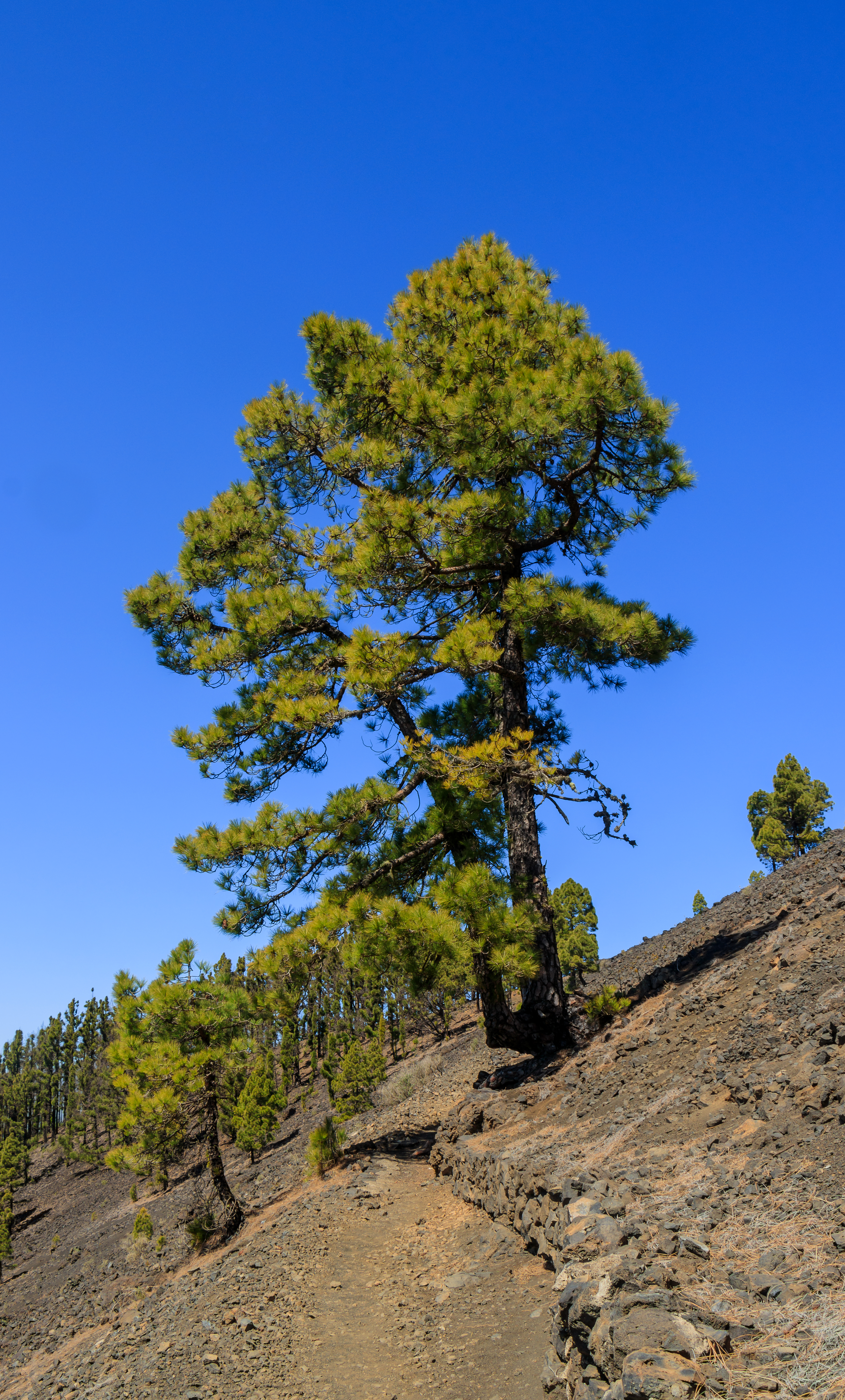 Pinus canariensis C.Sm. (Canary Island pine) at the Ruta de los Volcanes on the western slope of the Pico Birigoyo, El Paso, La Palma, Canary Islands, Spain.